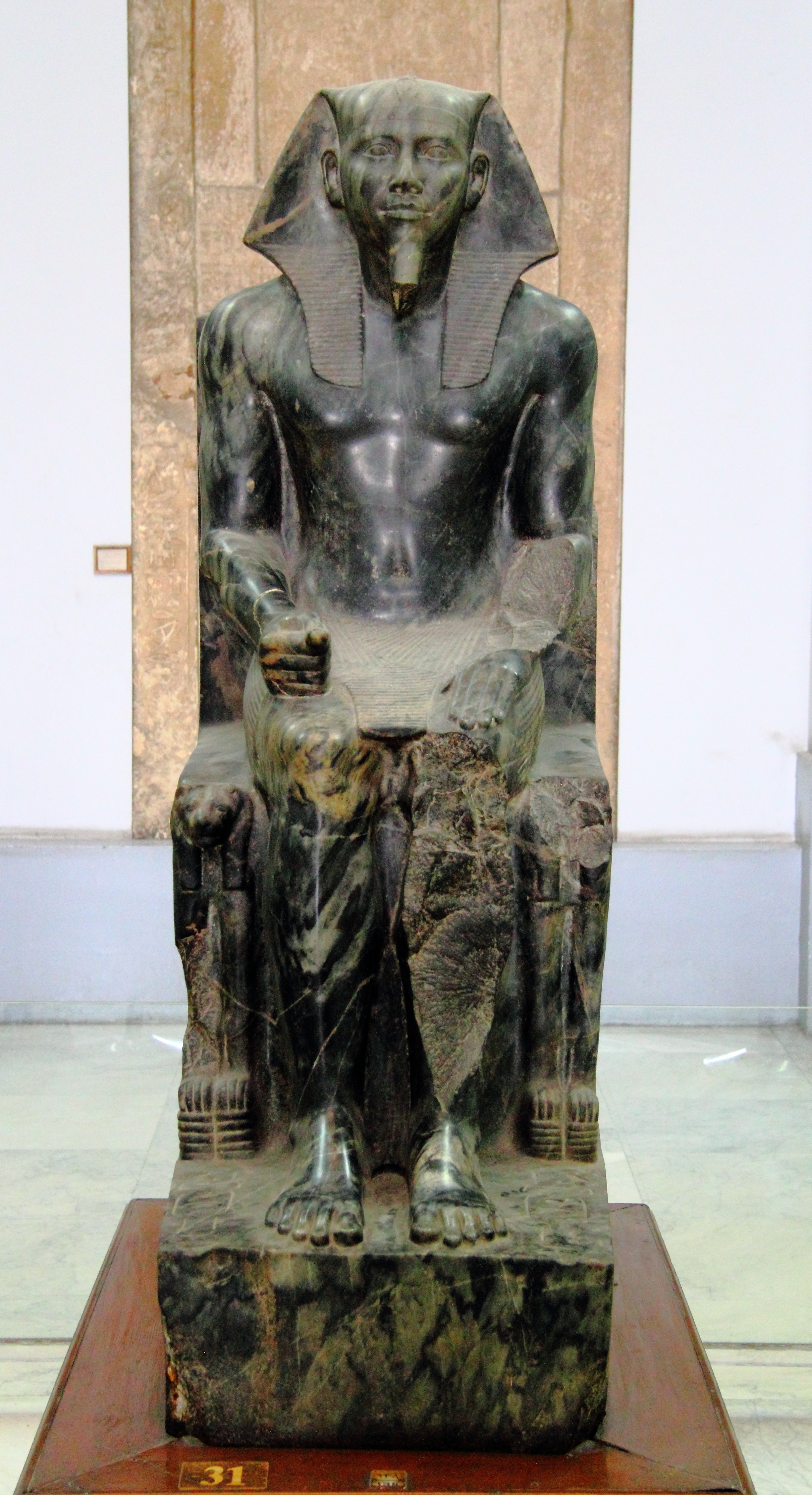 Egyptian Museum, Cairo: statue of king Khafre Enthroned, 4th Dynasty, Old Kingdom of Egypt